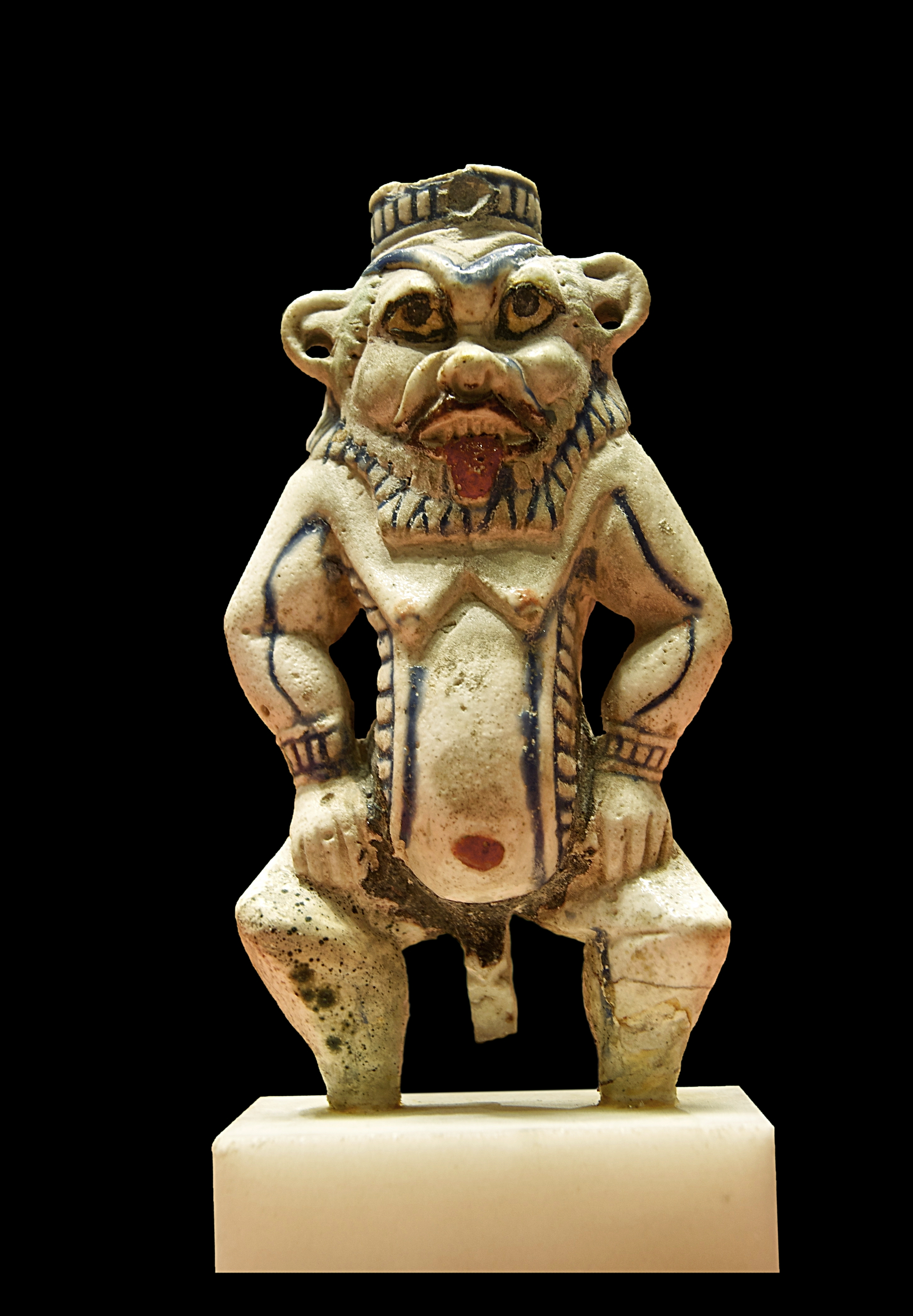 Perfume bottle for kohl, representing god Bes